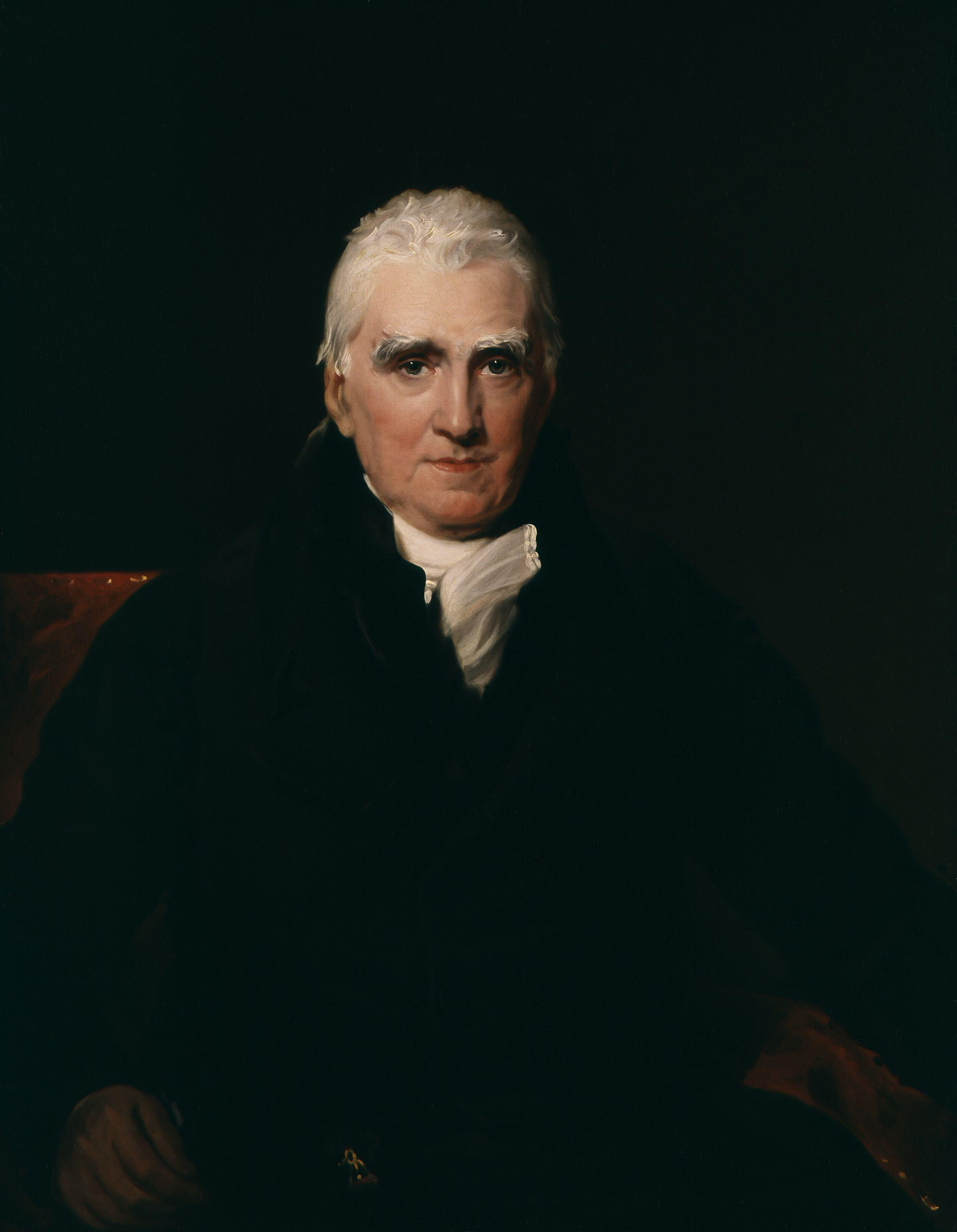 John Scott, 1st Earl of Eldon, by Sir Thomas Lawrence (died 1830), given to the National Portrait Gallery, London in 1877. All images in this batch have been confirmed as author died before 1939 according to the official death date listed by the NPG.